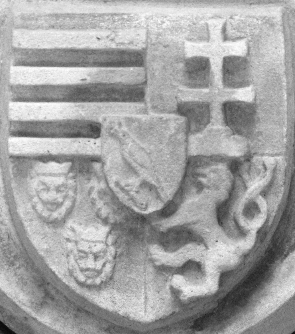 Coat of arms of Matthias Corvinus, Bratislava Castle, Bratislava. Sigismund's gate.